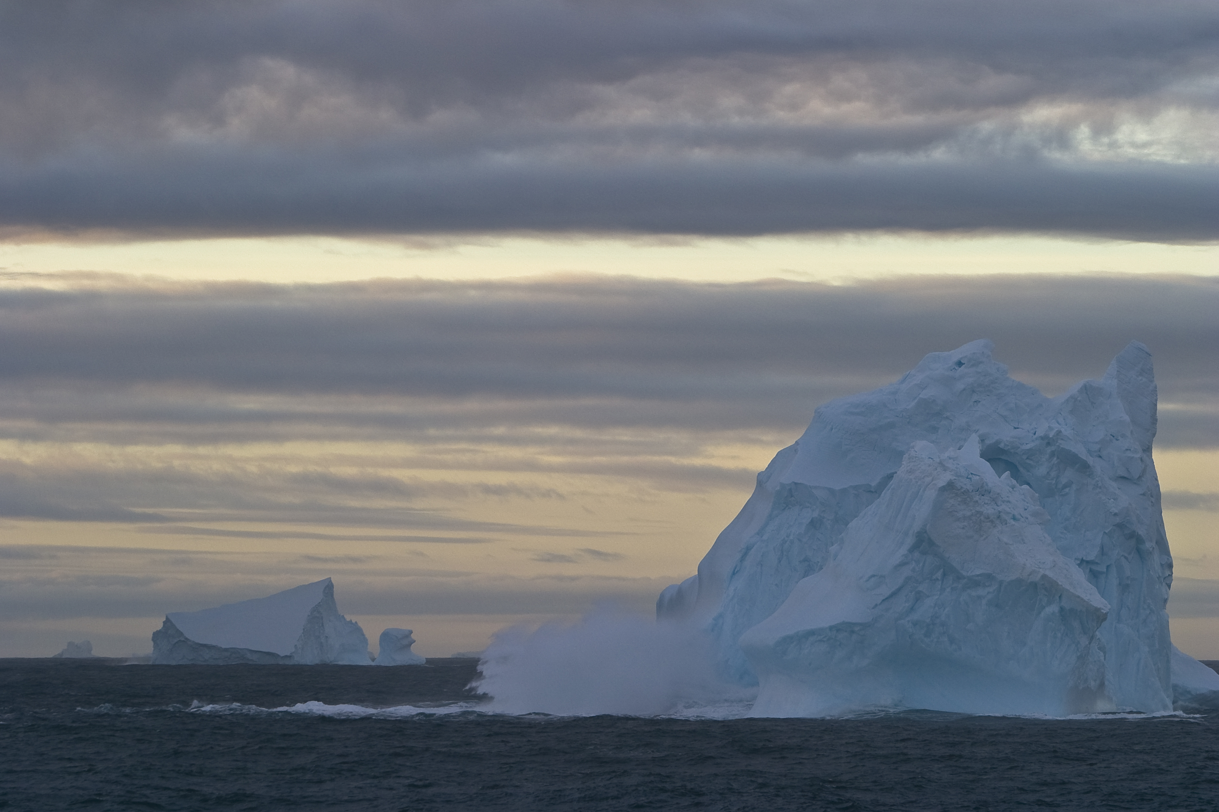 Icebergs in the Southern Ocean near South Shetland Islands